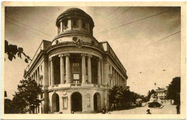 Union Monument, Iasi